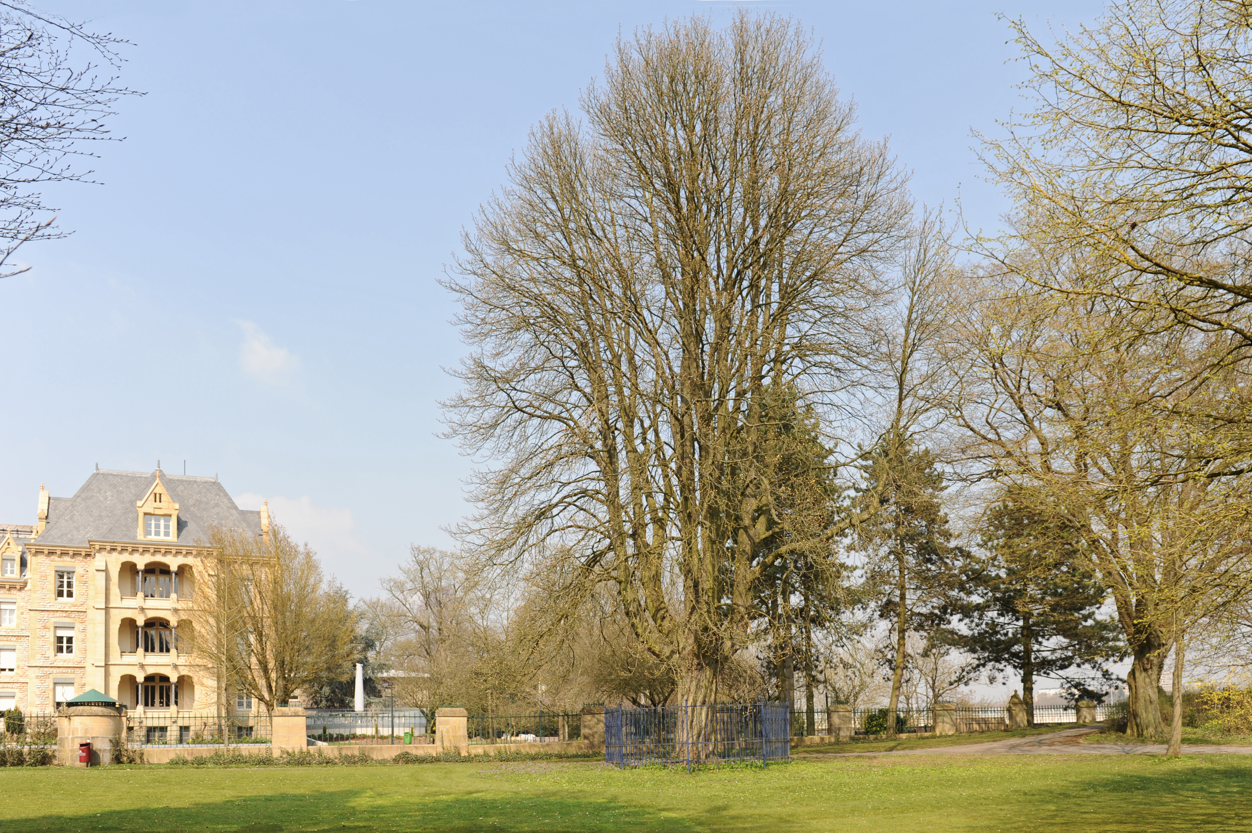 Remarkable tree in Pescatore Park in Luxembourg city. The tree was planted in 1921 at the occasion of the birth of prince Jean, the future Grand-Duke of Luxembourg (1964-2000).